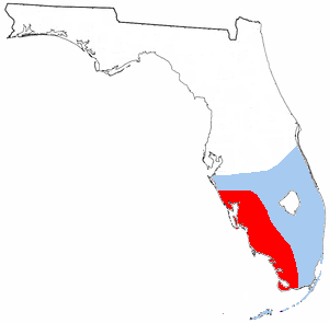 Created by User:Dalbury on June 7, 2006